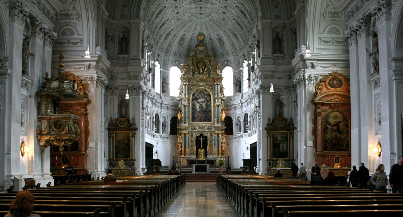 A fine Baroque church in the heart of Munich. Well worth a visit particularly on a cold winters day.